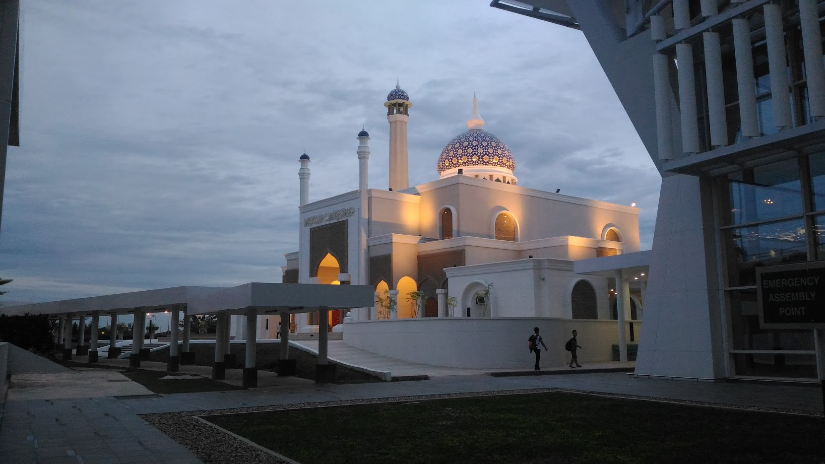 Mosque at Brunei International Airport.